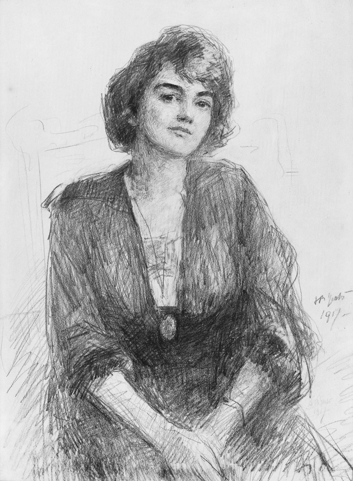 Jeanne Robert Foster pencil on buff paper signed c.r.: J.B. Yeats / 1917